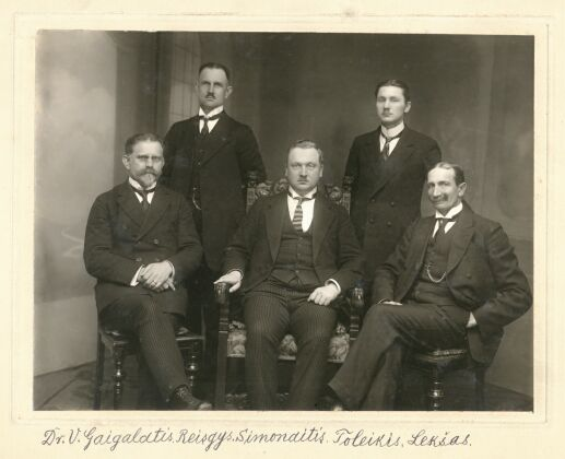 Directory of the Klaipėda Region during the Klaipėda Revolt. From left to right: Gaigalaitis, Martynas Reisgys, Simonaitis (chairman), Lekšas, Toleikis.